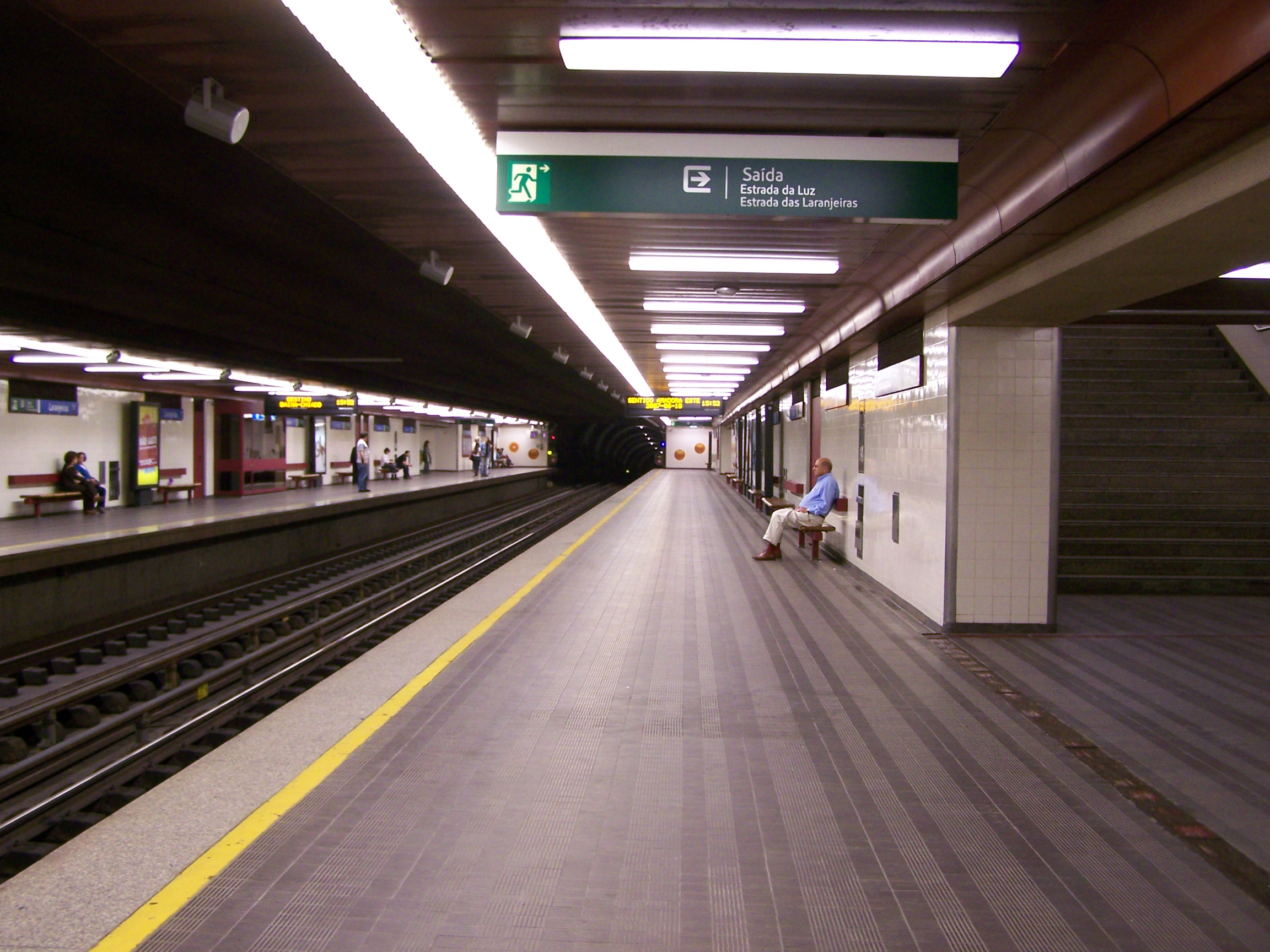 platform of Lisbon's underground station Laranjeiras, Lisbon, Portugal